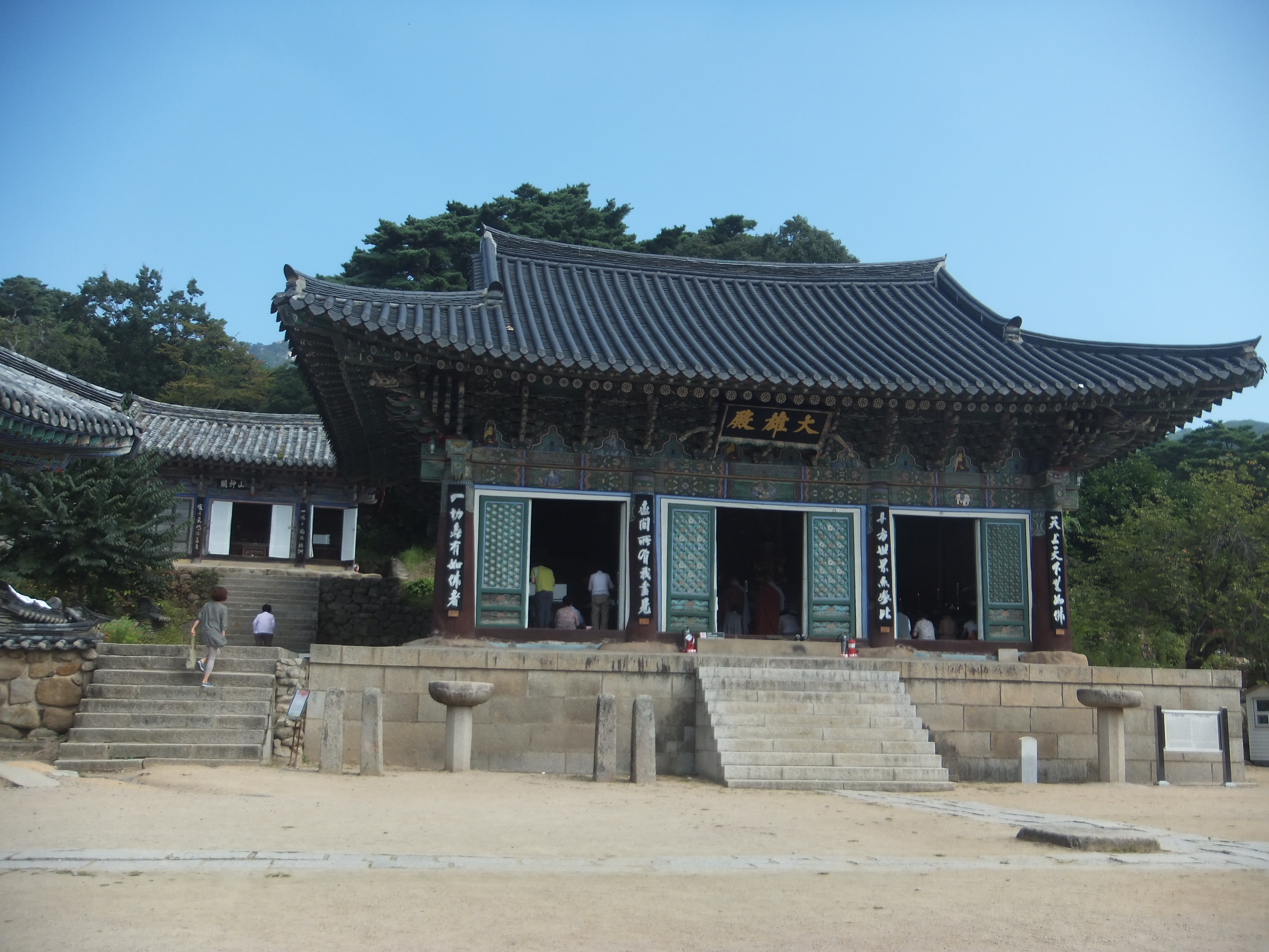 Main hall (Daeungjeon 大雄殿) of the Donghwa-Temple (Donghwasa), South-Korea